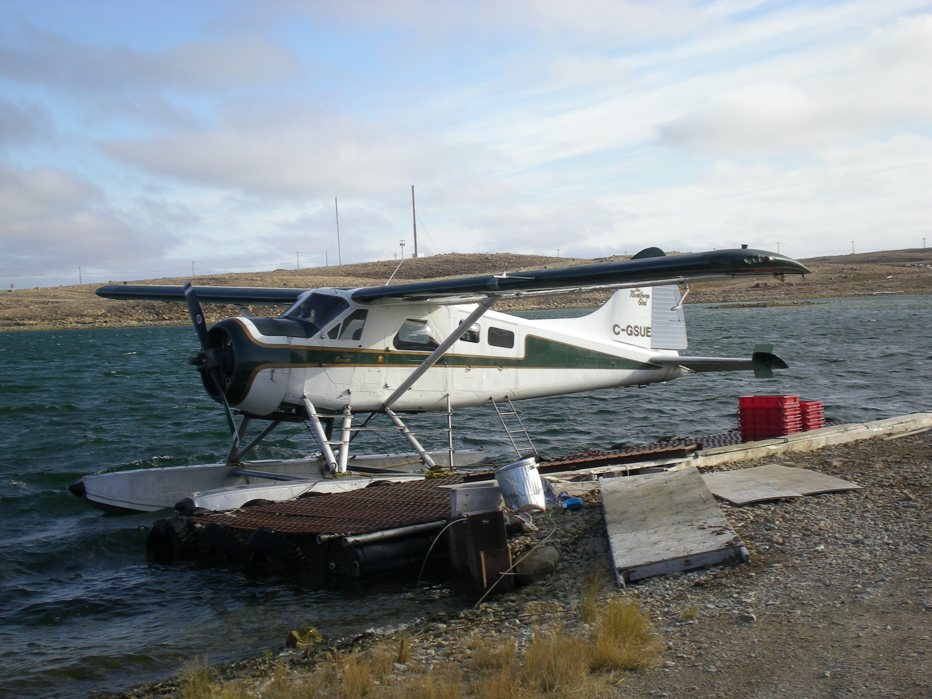 C-GSUE, a de Havilland Beaver (DHC2) Mk. 1, belonging to Dal Aviation. They operate two floatplanes in Cambridge Bay during the summer. This was taken later in the season than normal.